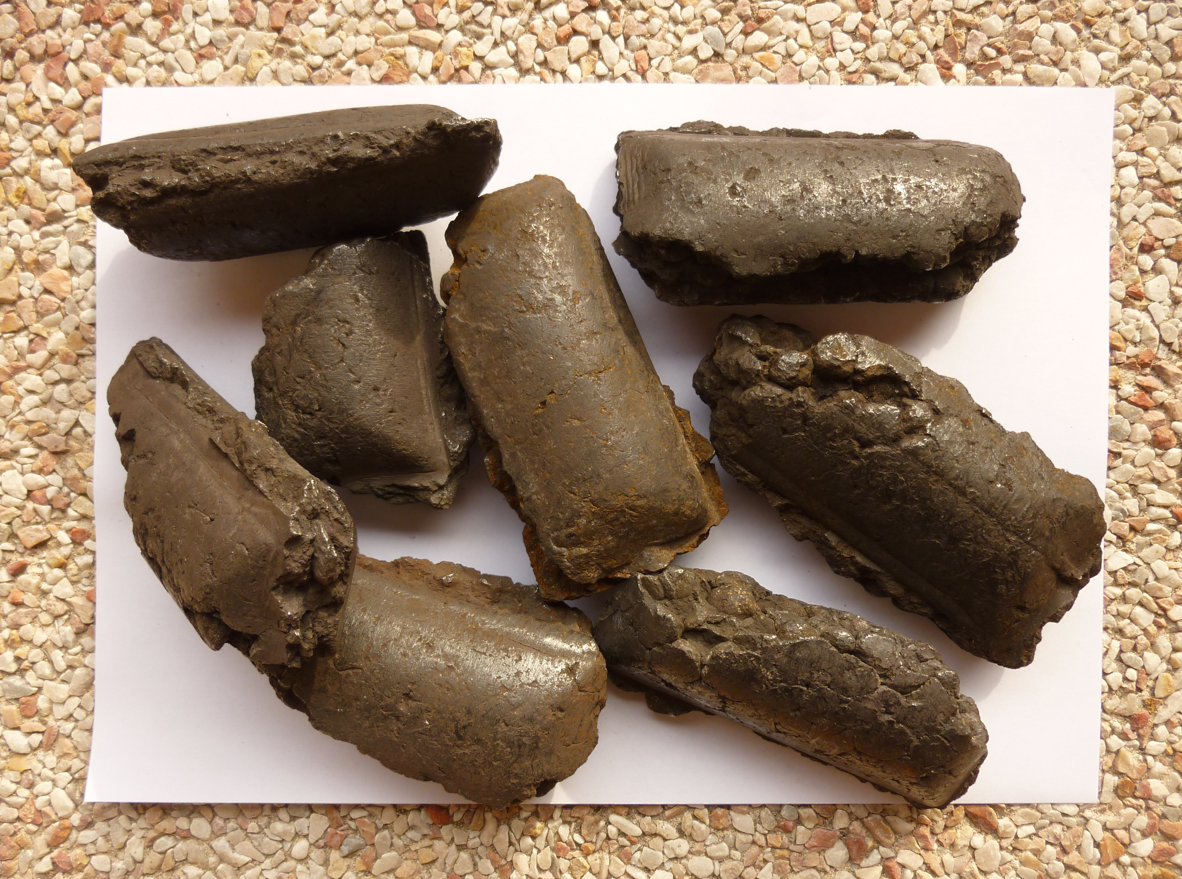 Direct reduced iron as hot-briquetted iron (also named HBI) laying on an A4 (21mm x 29.7mm) to give the scale.